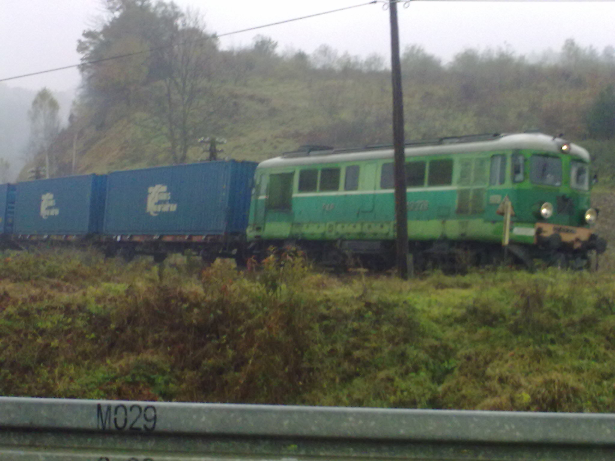 PKP CARGO train SK-PL